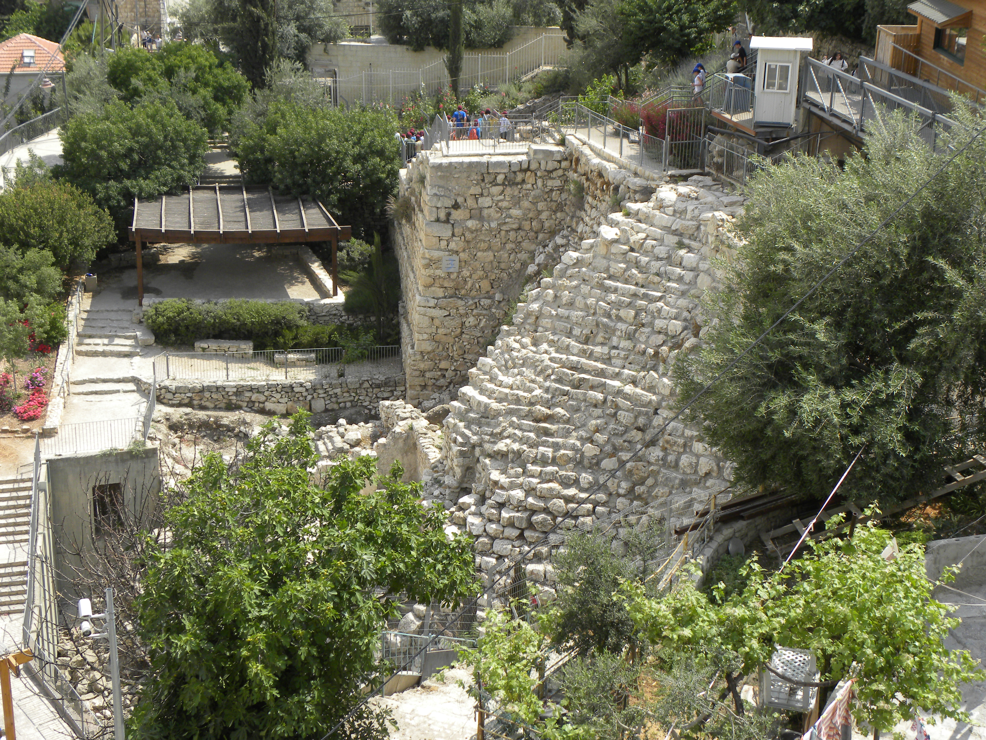 The so-called "stepped stone structure" on the North-East slope of the City of David. The structure dates to the early 10th century BCE and seems to be part of the foundation for a monumental building at the top. The building has plausibly been identified as a palace of King David, the first Israelite ruler of Jerusalem whose conquest of the city is described in the biblical book 2 Samuel. Jerusalem